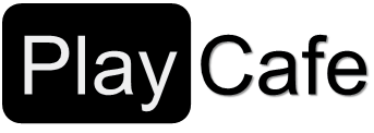 PlayCafe game show logo.